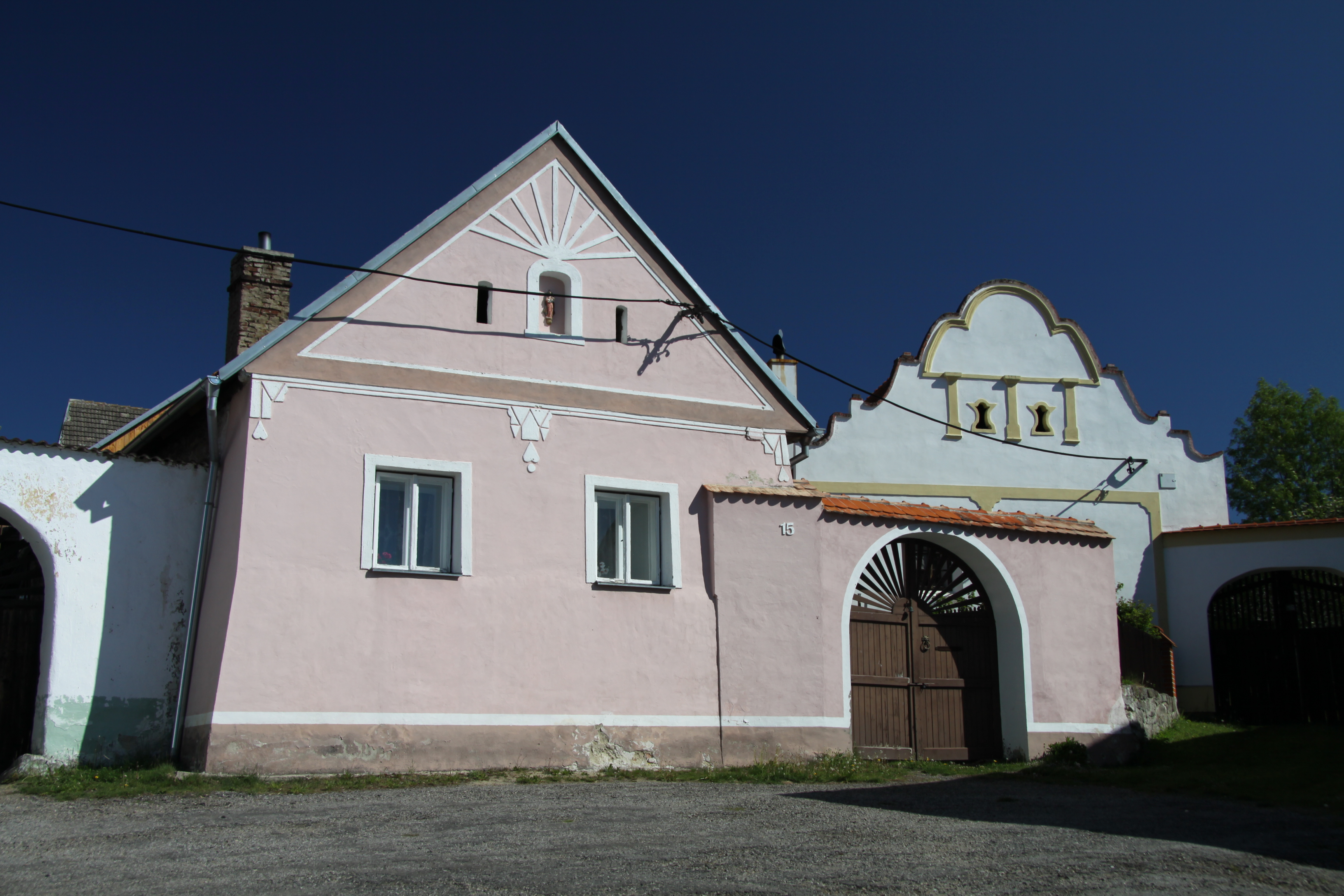 Buildings build in selské baroko style in Nahořany village, part of Čestice village in Strakonice District, Czech Republic